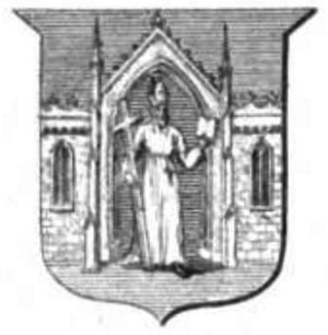 arms of scottish diocese (Moray)